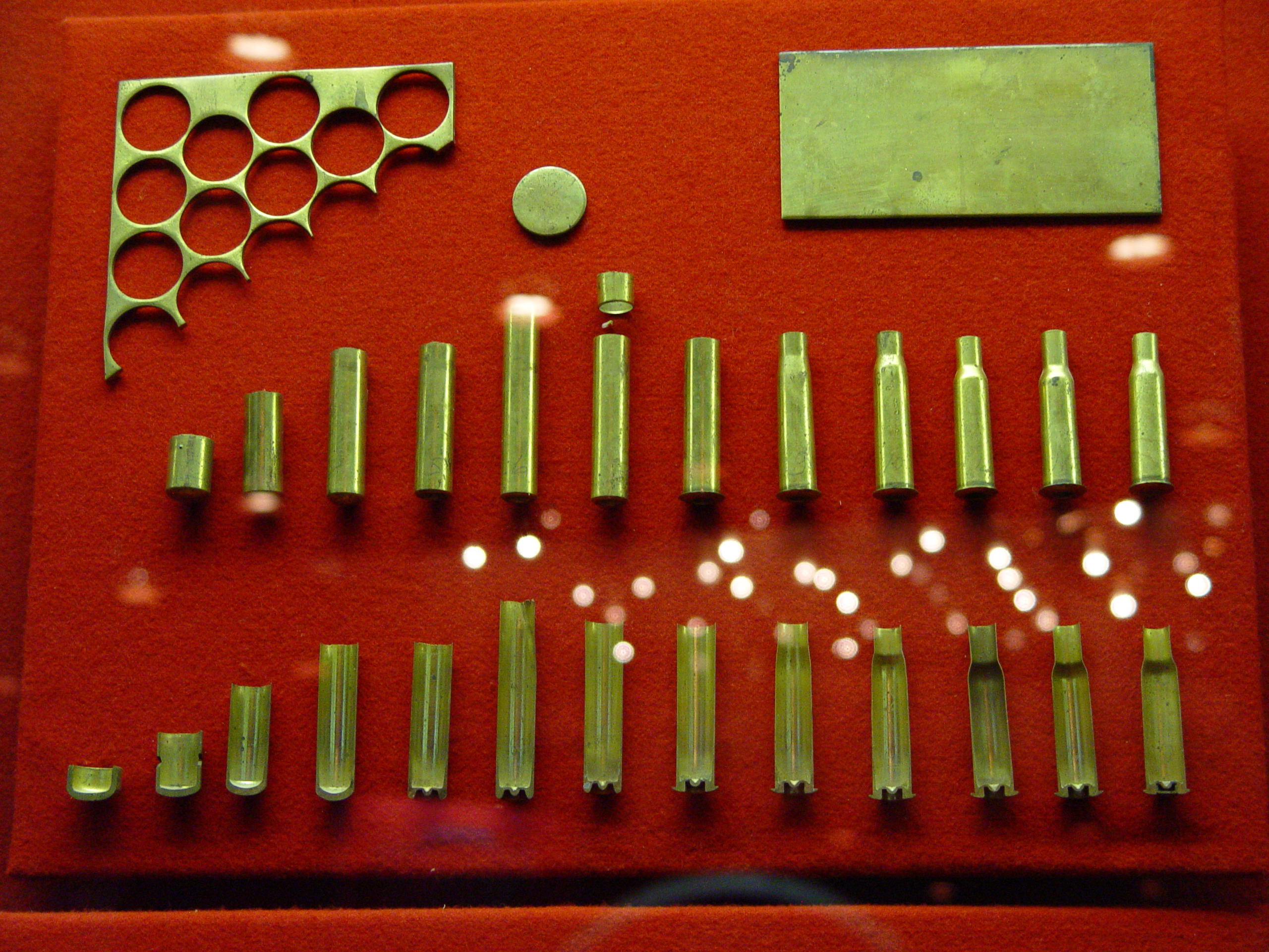 Steps of gun cartridge case production